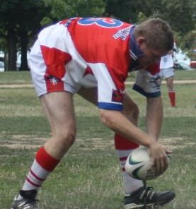 A cropped version of File:Rugby league play the ball.jpg